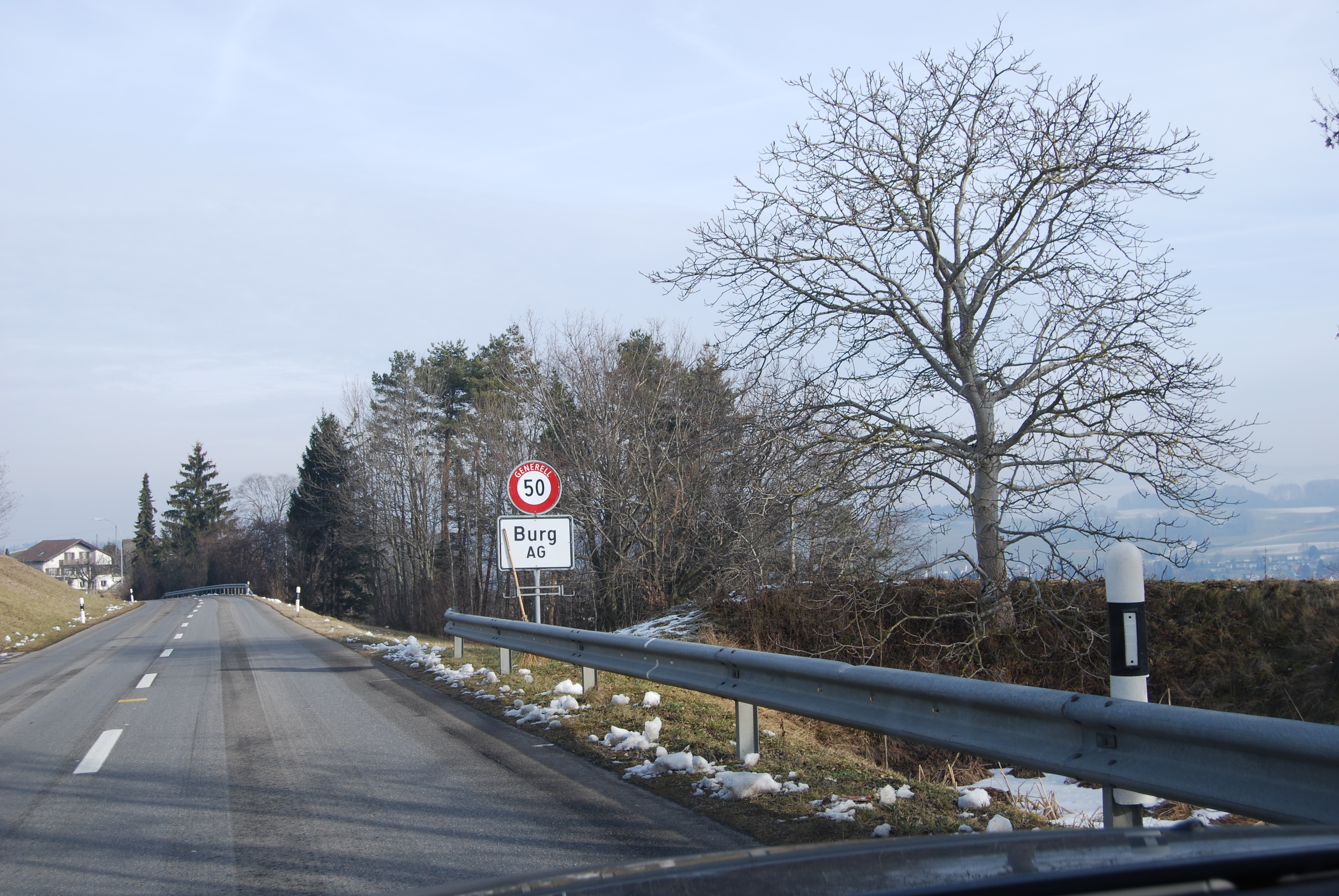 Burg, canton of Aargau, SwitzerlandEsperanto: Burg, Kantono Argovio, Svislando